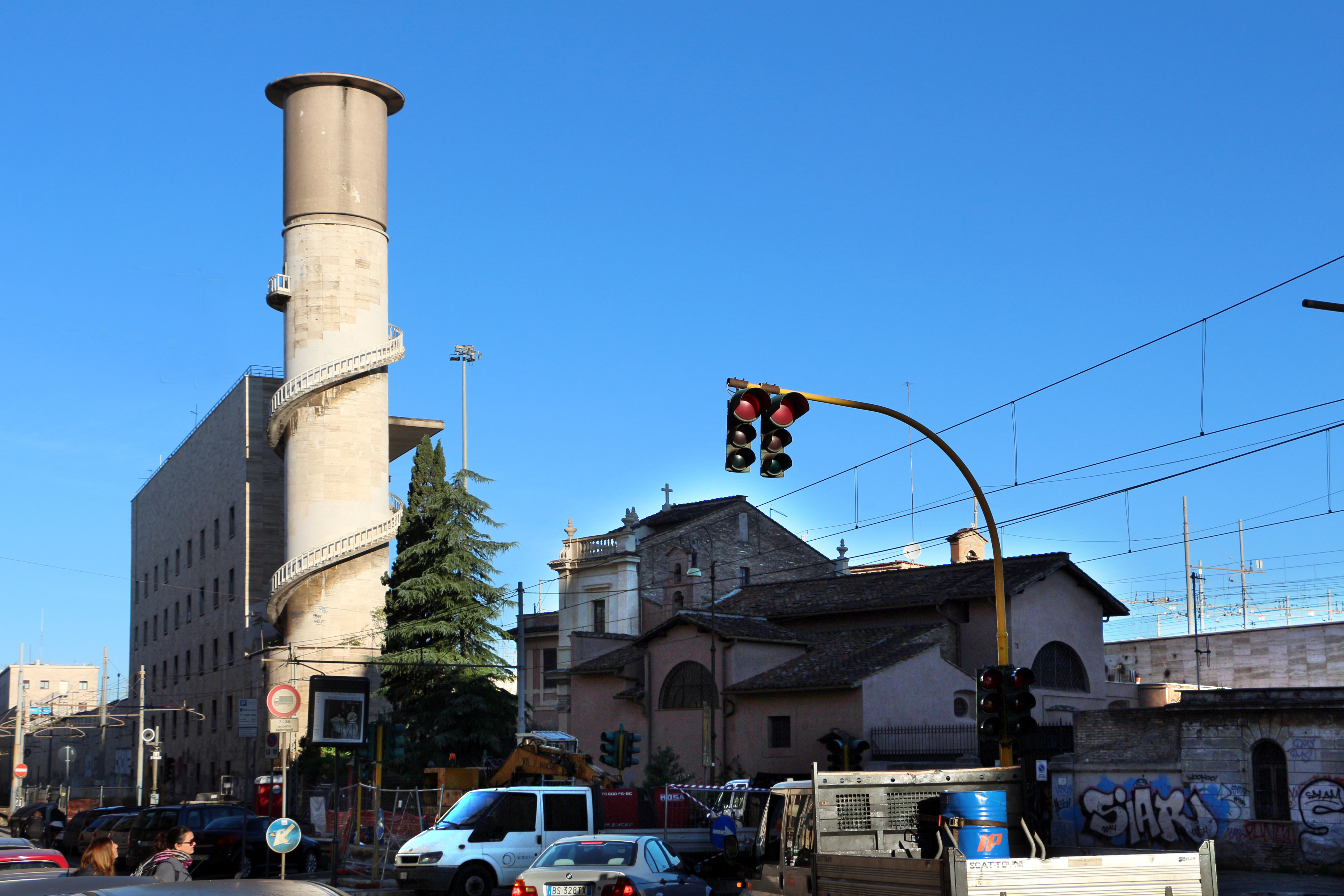 Santa Bibiana (Rome)